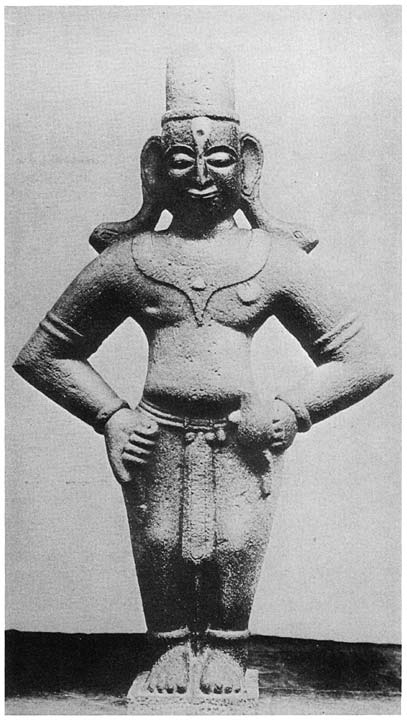 Image of the god Vishnu as Vithoba. Takpithya (Imitation) Vithoba, Pandharpur.